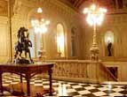 Stairway of Honor Francia in the Casa Rosada